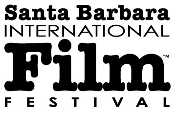 SBIFF Logo